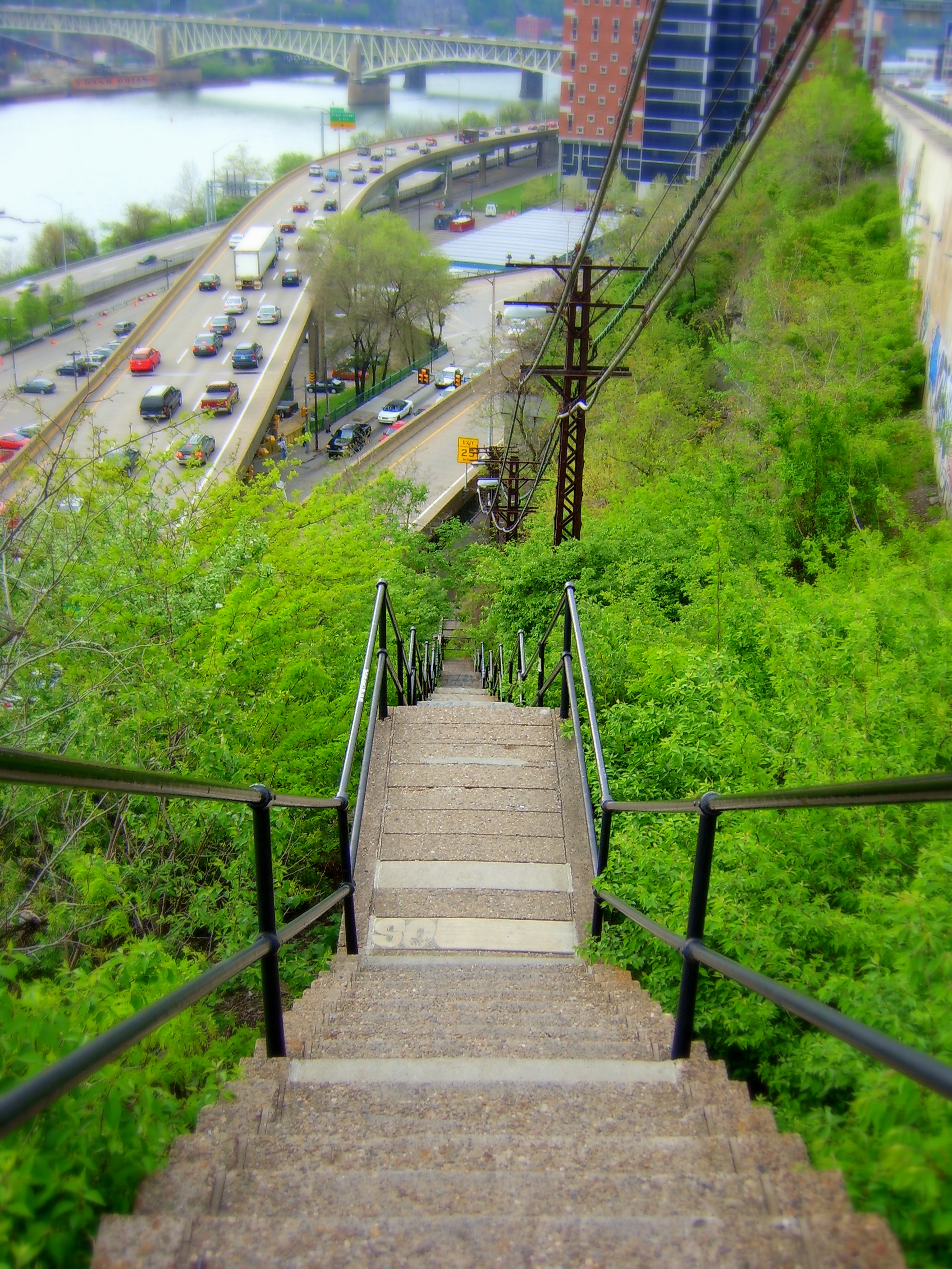 A shot from the top of the 1st landing heading down the steps.